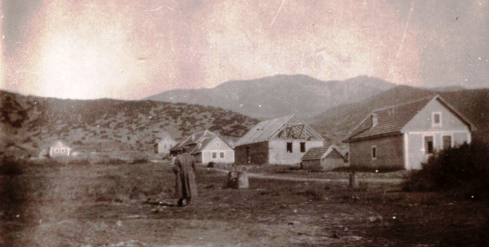 Village Josifovo, 1931 This media file is produced by Wikipedian in Residence in Category:Wikipedian in Residence at DARM in 2016.